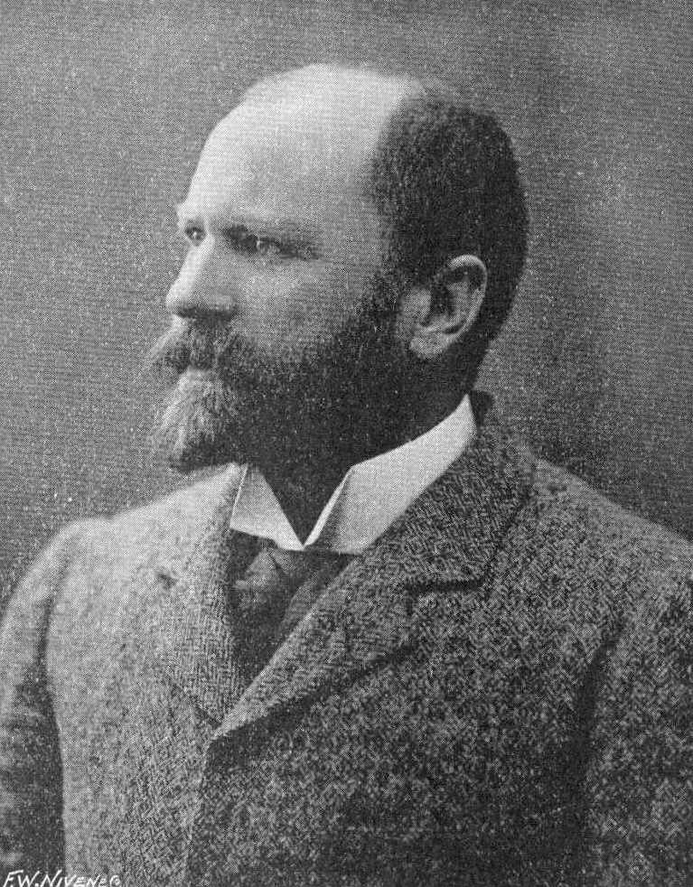 Scan from original